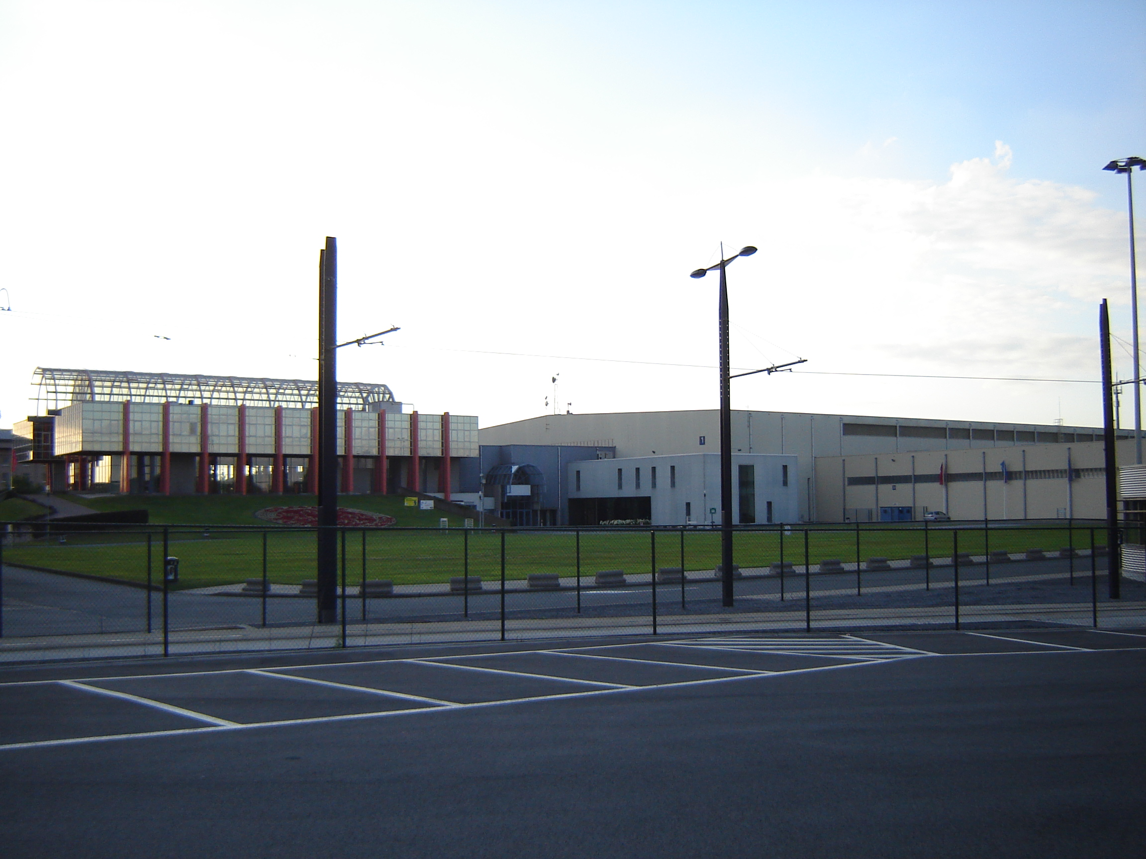 View on Flanders Expo. Gent, East Flanders, Belgium